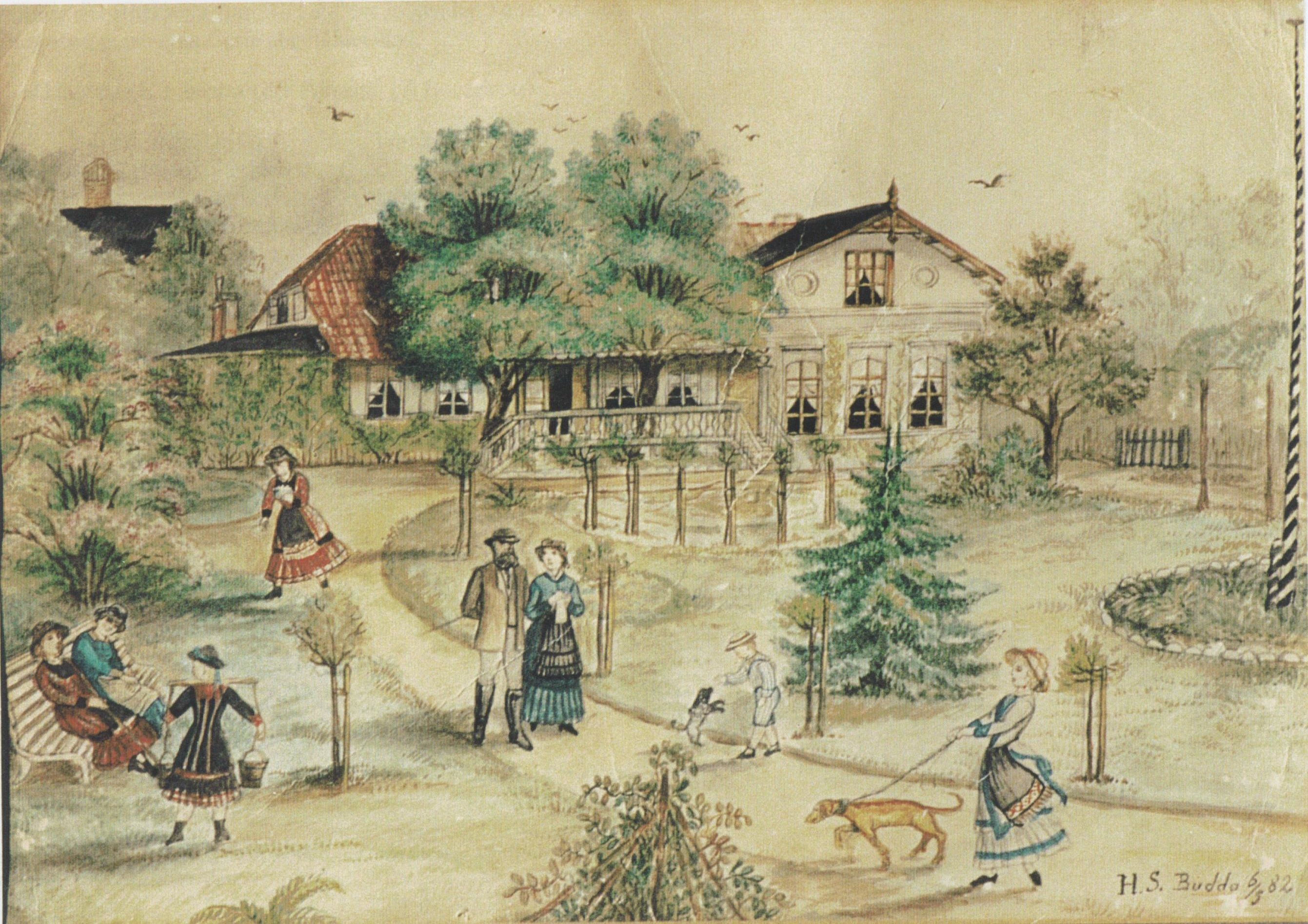 Manor Budda 1882, West Prussia. Today: Budy in the polish municipality Lubichowo, Starogard County, Pomeranian Voivodeship.